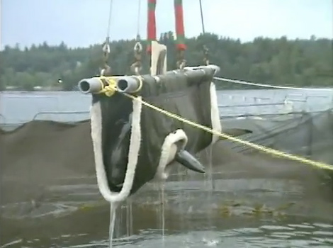 Springer lifted from Manchester